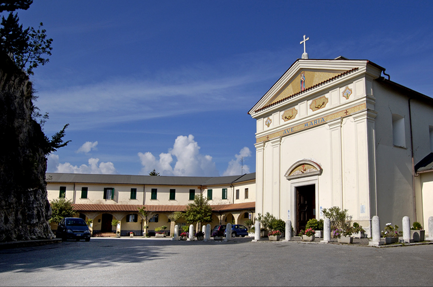 Madonna di Pietraquaria sanctuary, Avezzano, Abruzzo, Italy